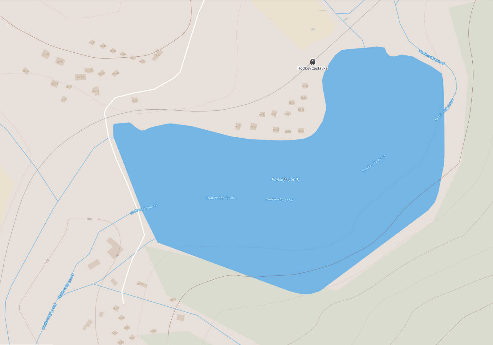 Panský Pond (Hodkov) 1.Schema. Kutná Hora District, the Czech Republic.